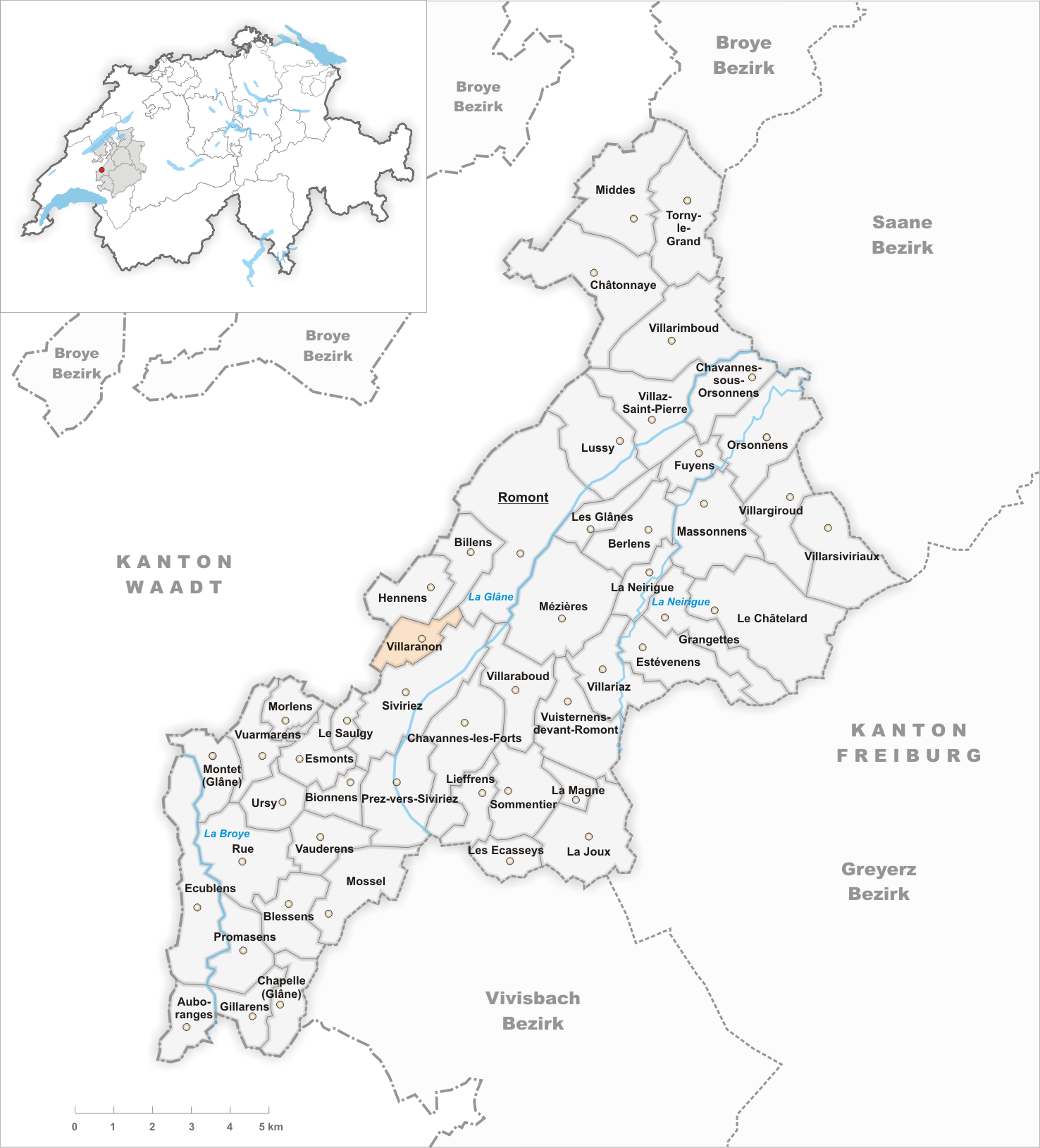 Municipality Villaranon Artist: Tschubby